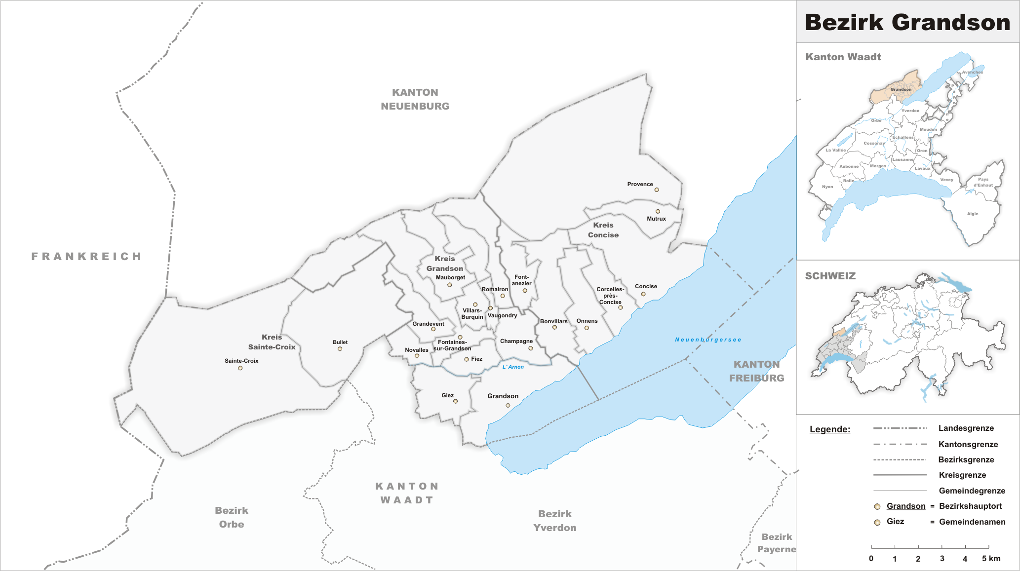 Municipalities in the district of Grandson